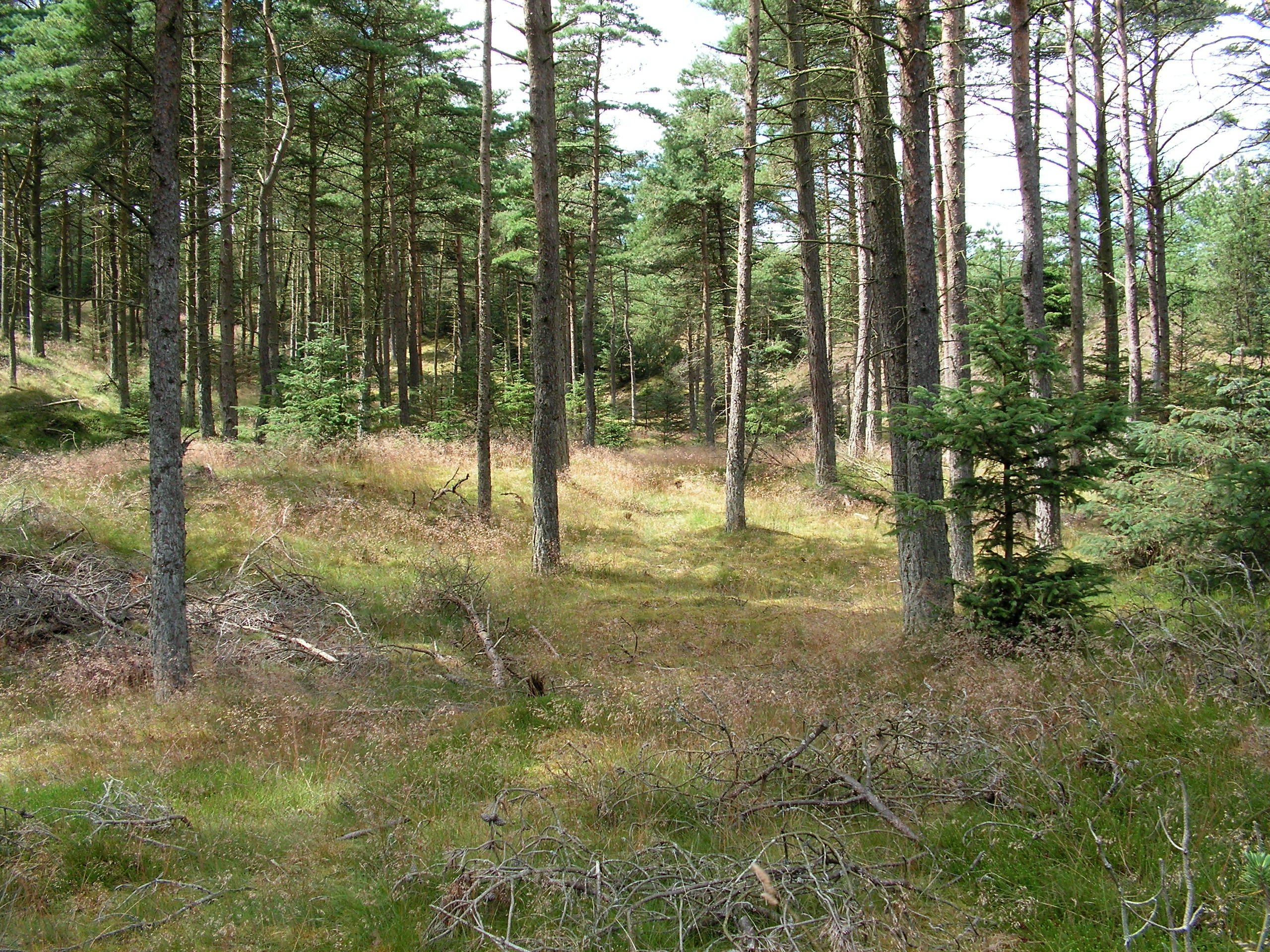 Tved Klitplantage in Thy Nationalpark, Denmark.